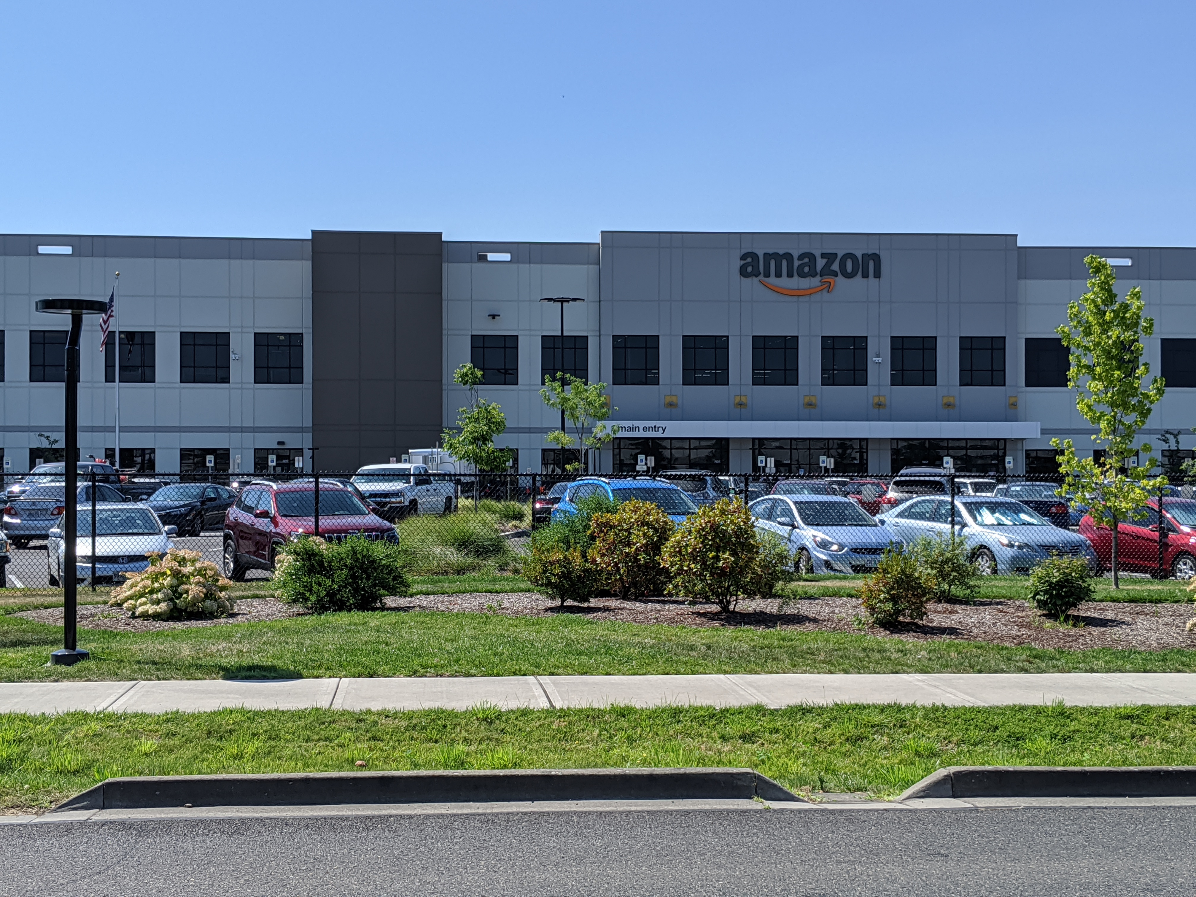 Amazon's Troutdale, Oregon warehouse/fulfillment center ("DC") seen from street.